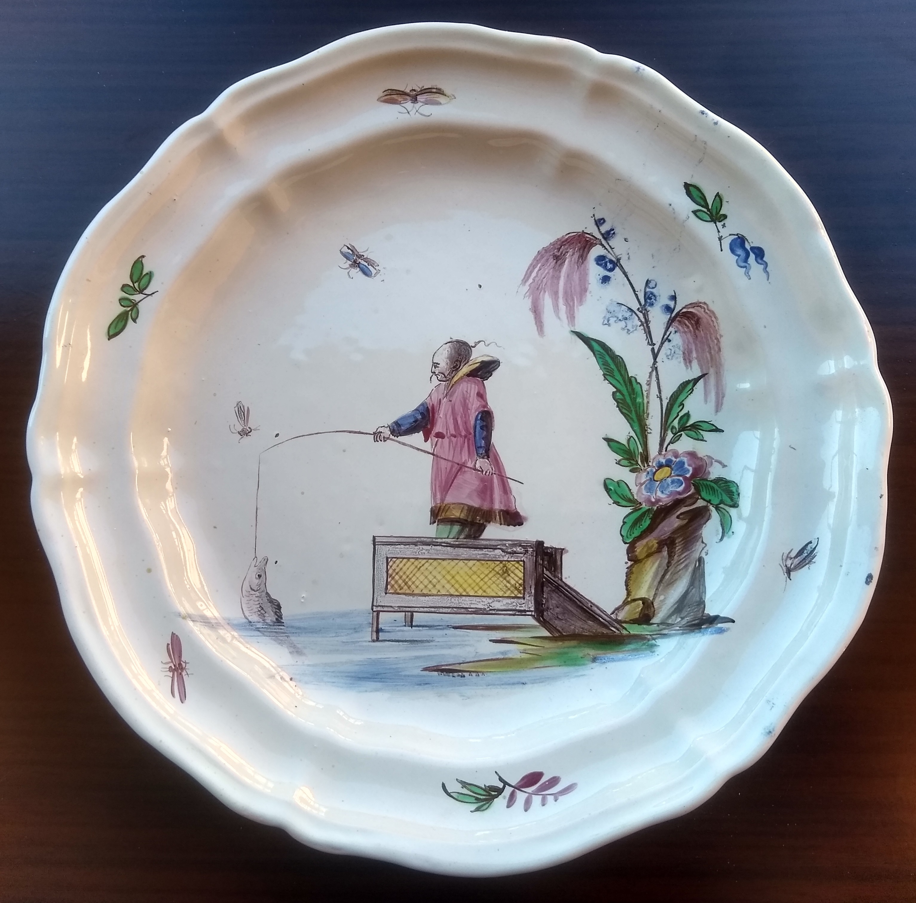 Maiolica dish, diameter=24,5 cm, produced in Lodi, Italy, Antonio Ferretti factory, about 1775, piccolo fuoco firing (overglaze decoration), with a blue mark on the back, indicating the Ferretti factory manufacture. It represents an oriental looking fisherman, with a pony tail. On the right, a rock with a flower and other plants. The Ferretti factory produced a large number of similar dishes with oriental characters, most of them are in the Castello Sforzesco Museum in Milan (Felice Ferrari, La ceramica di Lodi, Azzano San Paolo, Bolis Edizioni, 2003, page 332). Pictures of the same dish are also published in: Felice Ferrari, La ceramica di Lodi, Azzano San Paolo, Bolis Edizioni, 2003, page 333. Catalogo Mostra Maioliche Lodigiane del Settecento nelle collezioni private, organised by FAI Lodi, Electa, 1995, number 231. Private collection